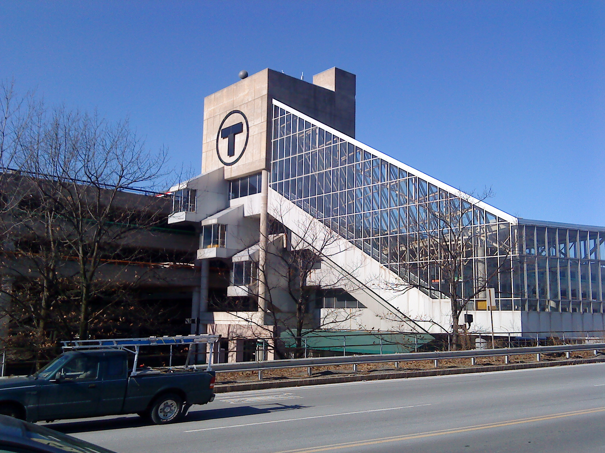 The Alewife Station "T" sign and glass pyramid from Alewife Brook Parkway. The inside contains both elevators and escalators to the parking garage.